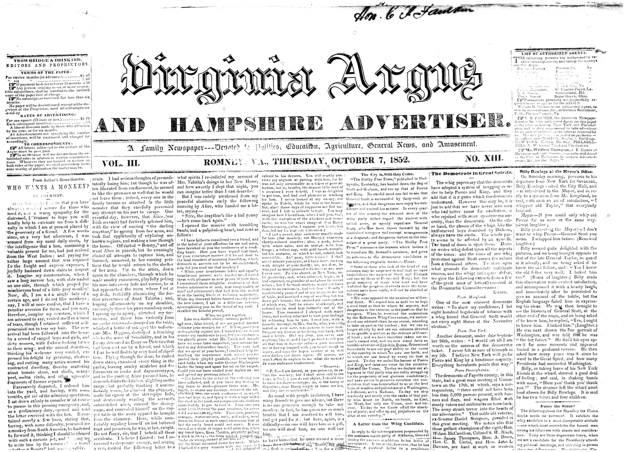 Virginia Argus and Hampshire Advertiser Volume III Number XIII published in Romney, Virginia (now West Virginia on Thursday, October 7, 1852. This is a digital image of the newspaper's front page, above the fold. As is indicated in the signature at the top of the page, this issue was likely owned by Charles James Faulkner, a member of the United States House of Representatives from Virginia's 8th congressional district. Faulkner later served as the United States Minister to France, and again as a member of the United States House of Representatives from West Virginia's 2nd congressional district.